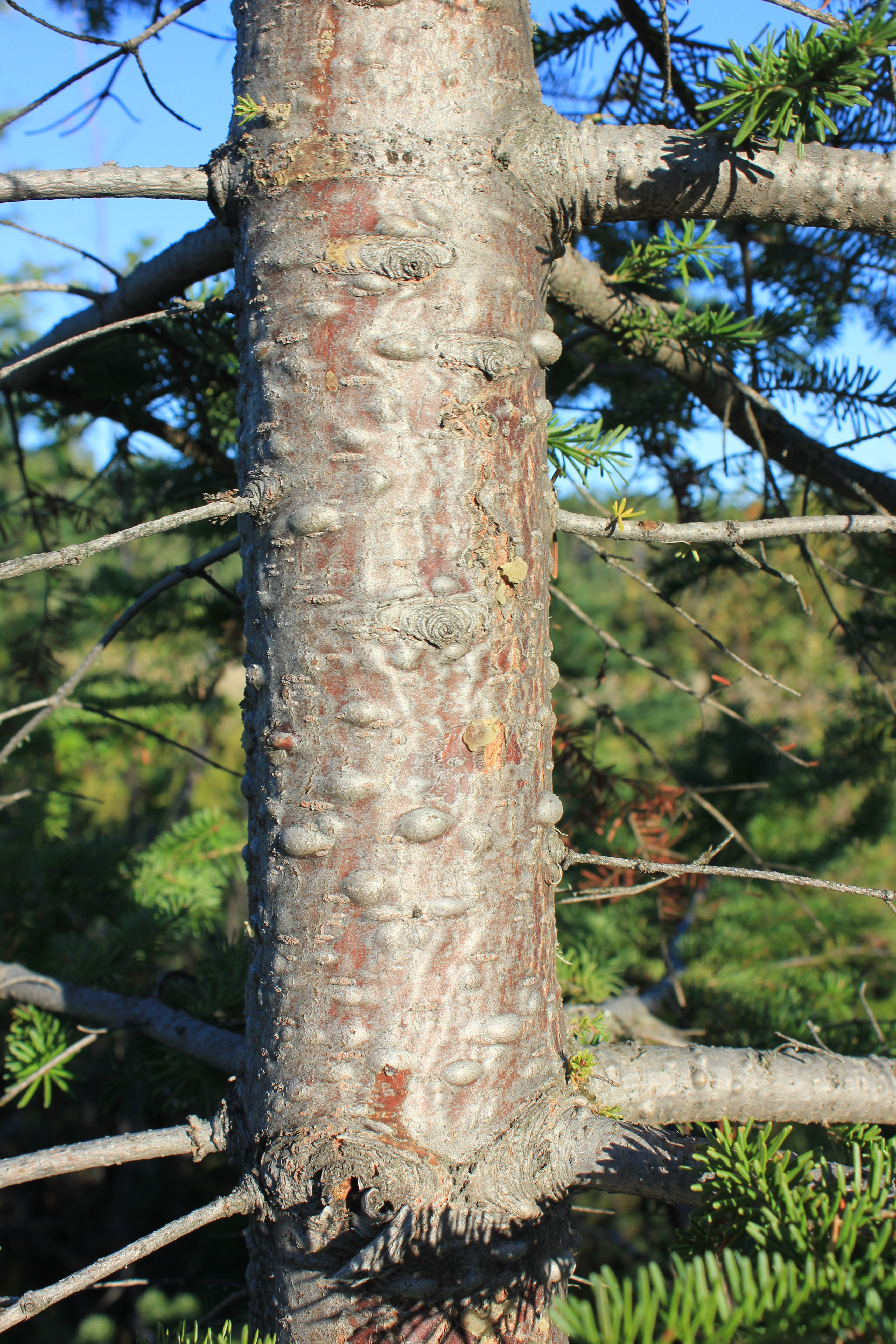 close-up of Abies balsamea (balsam fir) bark showing resin blisters near Lodgepole, Alberta, Canada